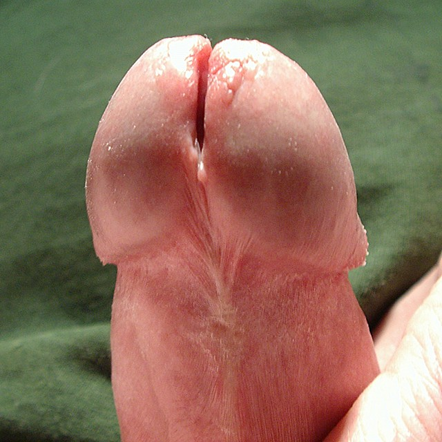 meatotomy_5.jpg